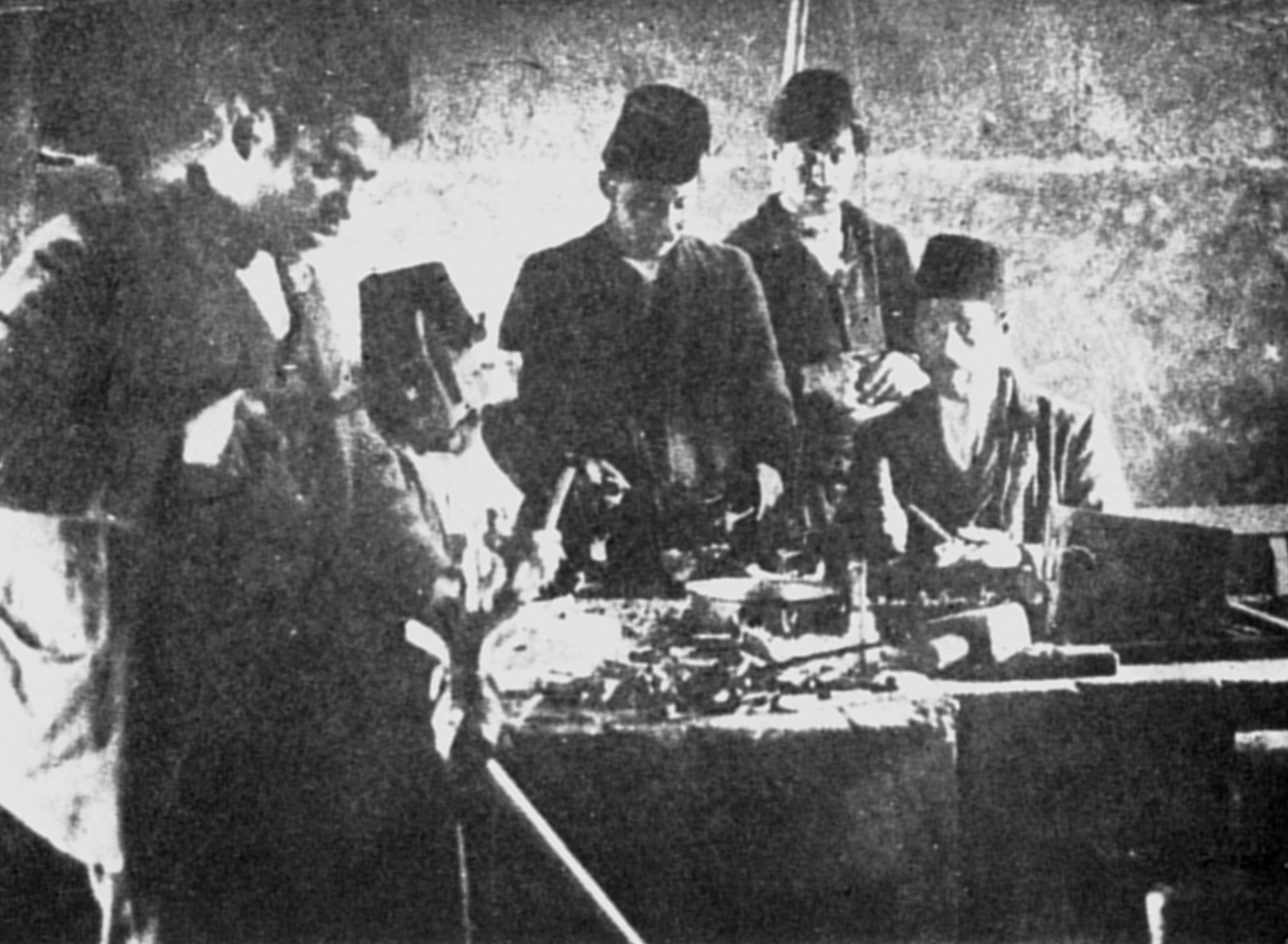 Armenian_preparations during Siege of Van. Removed caption: ARMENIANS MAKING CARTRIDGES BY HAND DURING DEFENSE